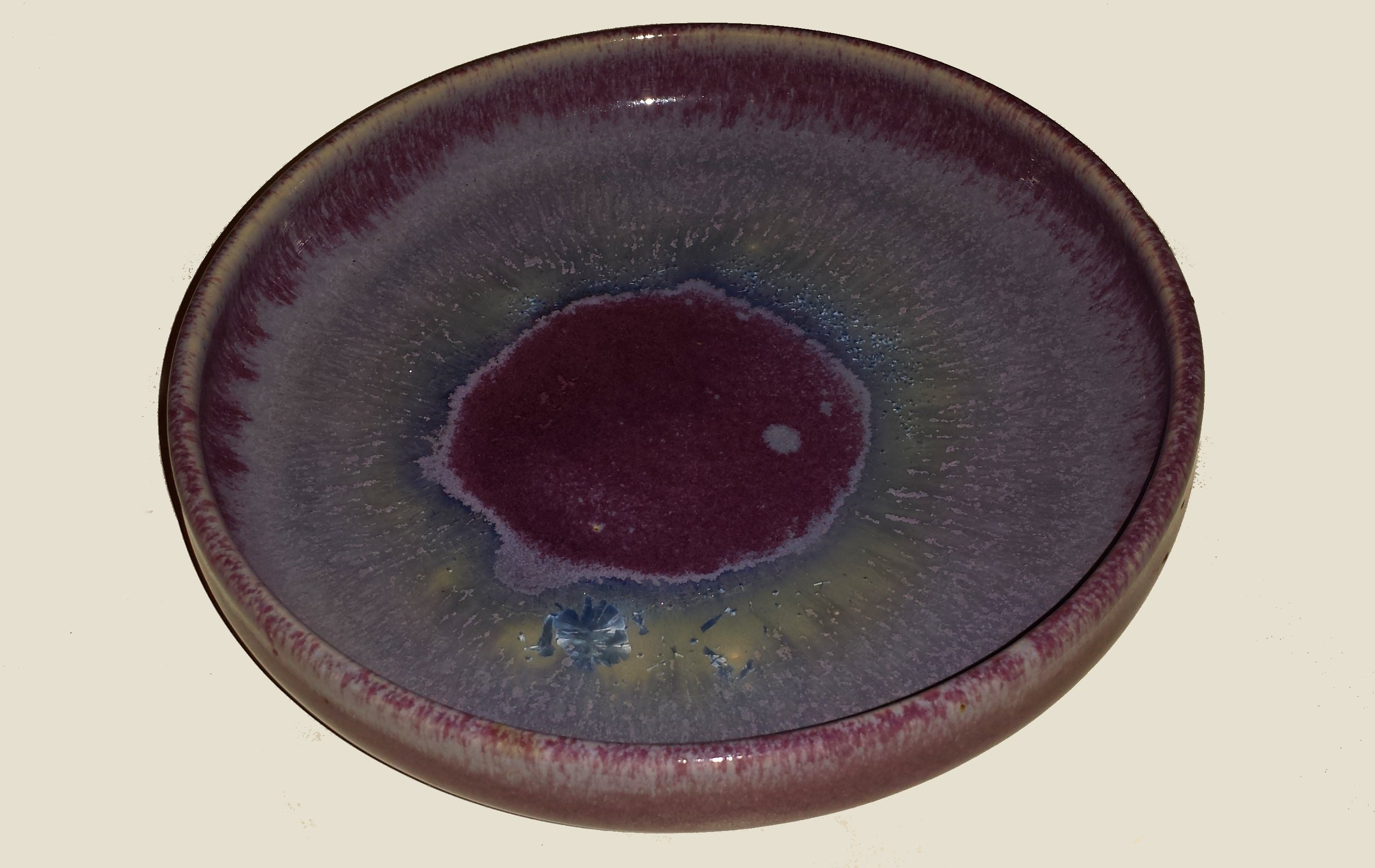 Ceramic bowl with crystal glaze by Jochen Kuhnhenne